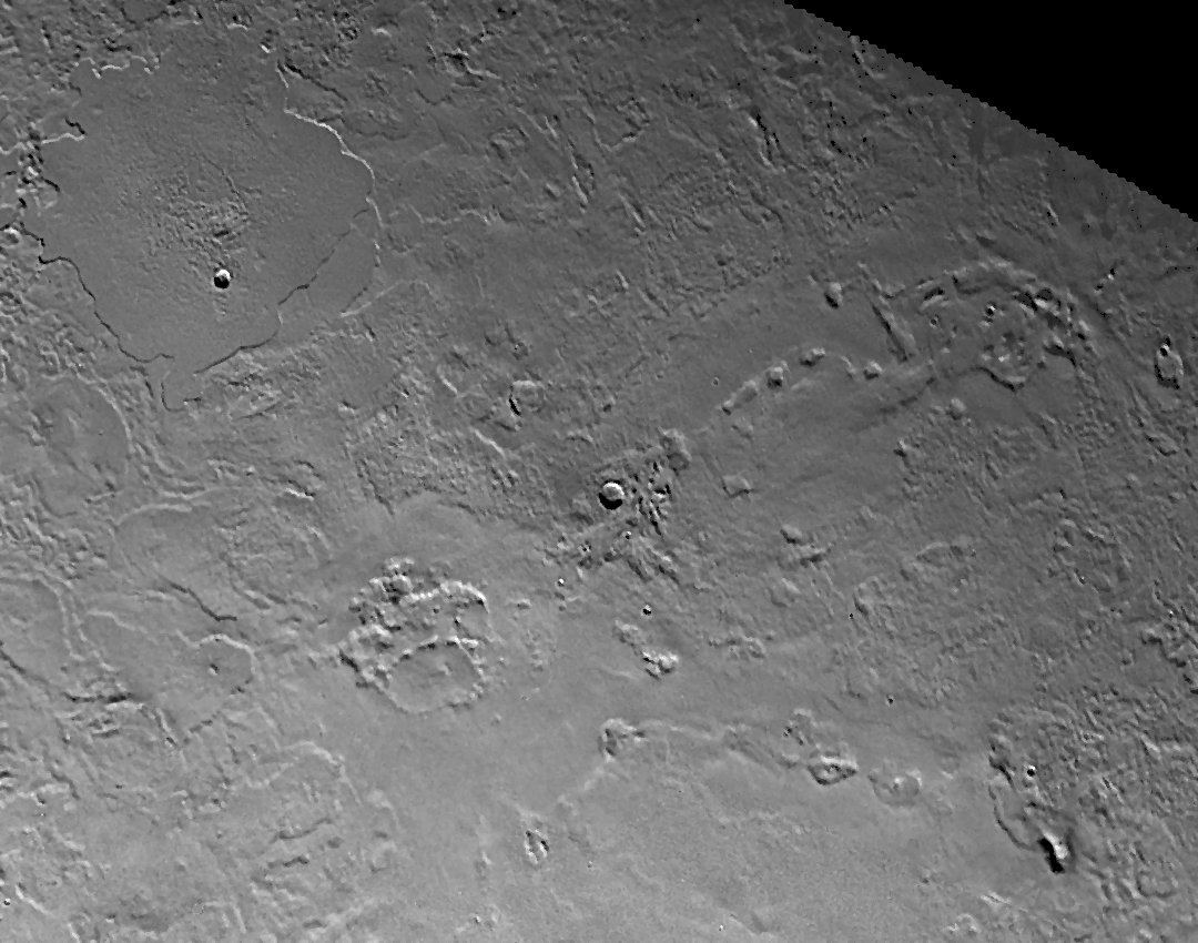 Close up of the volcanic dome of Leviathan Patera, with one of the lava lakes seen in the upper left of the image. Several pit chains can be seen extending radially from the caldera to the right, while to the left, just off-screen, is the beginning of a rift zone aligned radially with the caldera, indicating a close connection between the tectonic and volcanic features in this unit